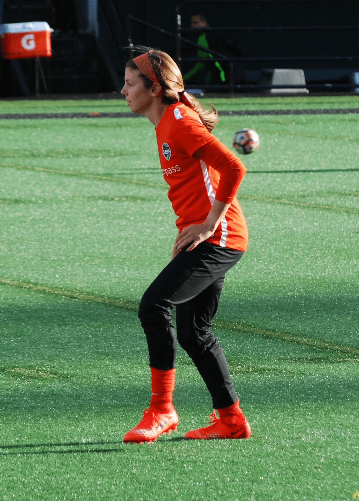 Caity Heap, Seattle Reign FC vs Houston Dash, April 22, 2017, Memorial Stadium, Seattle, WA